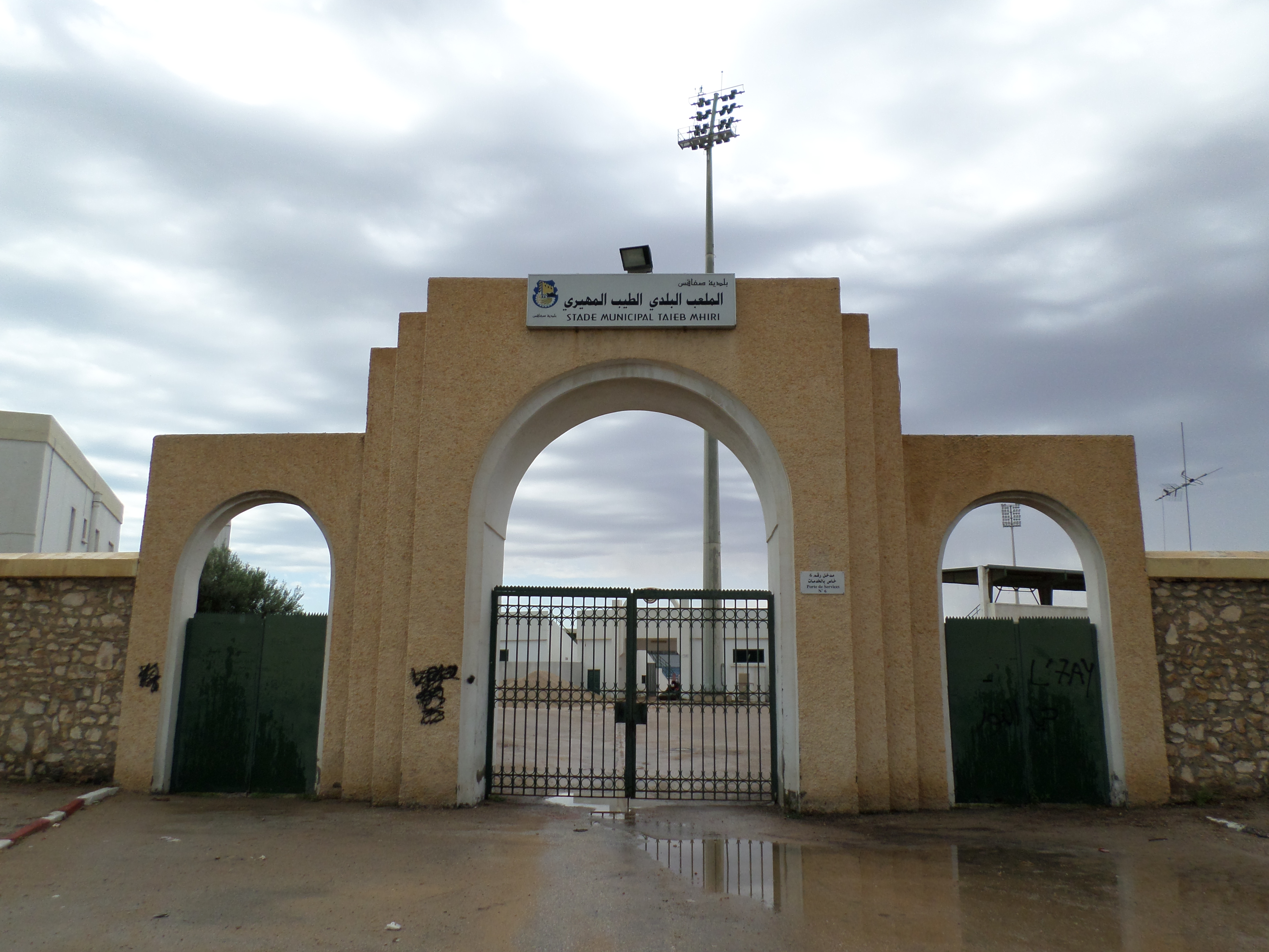 Main entry of Taieb Mehiri stadium, Sfax